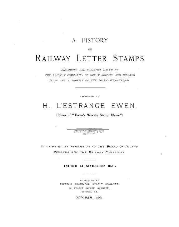 A book title page: A History of Railway Letter Stamps; Describing All Varieties Issued by the Railway Companies of Great Britain and Ireland Under the Authority by H. L'Estrange Ewen (original of 1901). Scanned by Google Books.